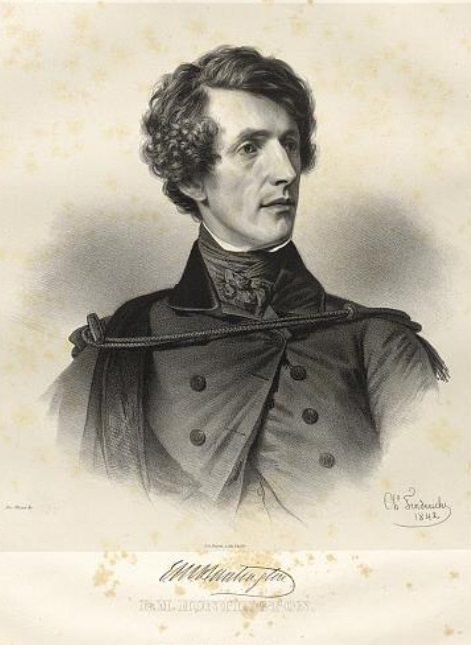 Elisha Mills Huntington as Commissioner of the General Land Office. Lithograph on paper.